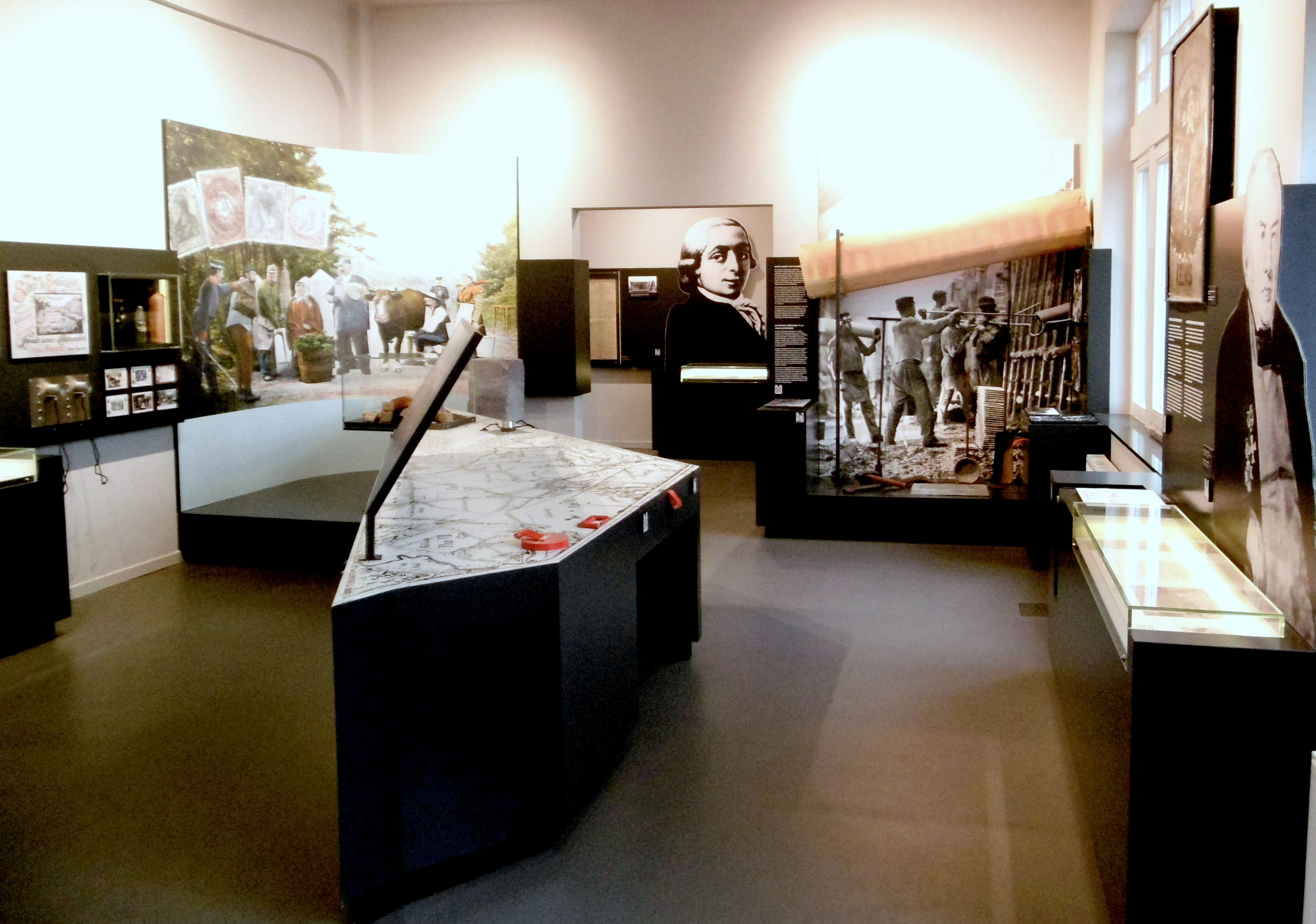 Ausstellungsraum Museum Vieille Montagne